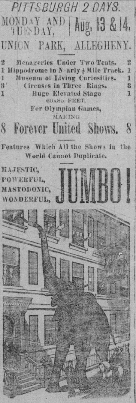 Part of ca.1883 Barnum's newspaper advertisement